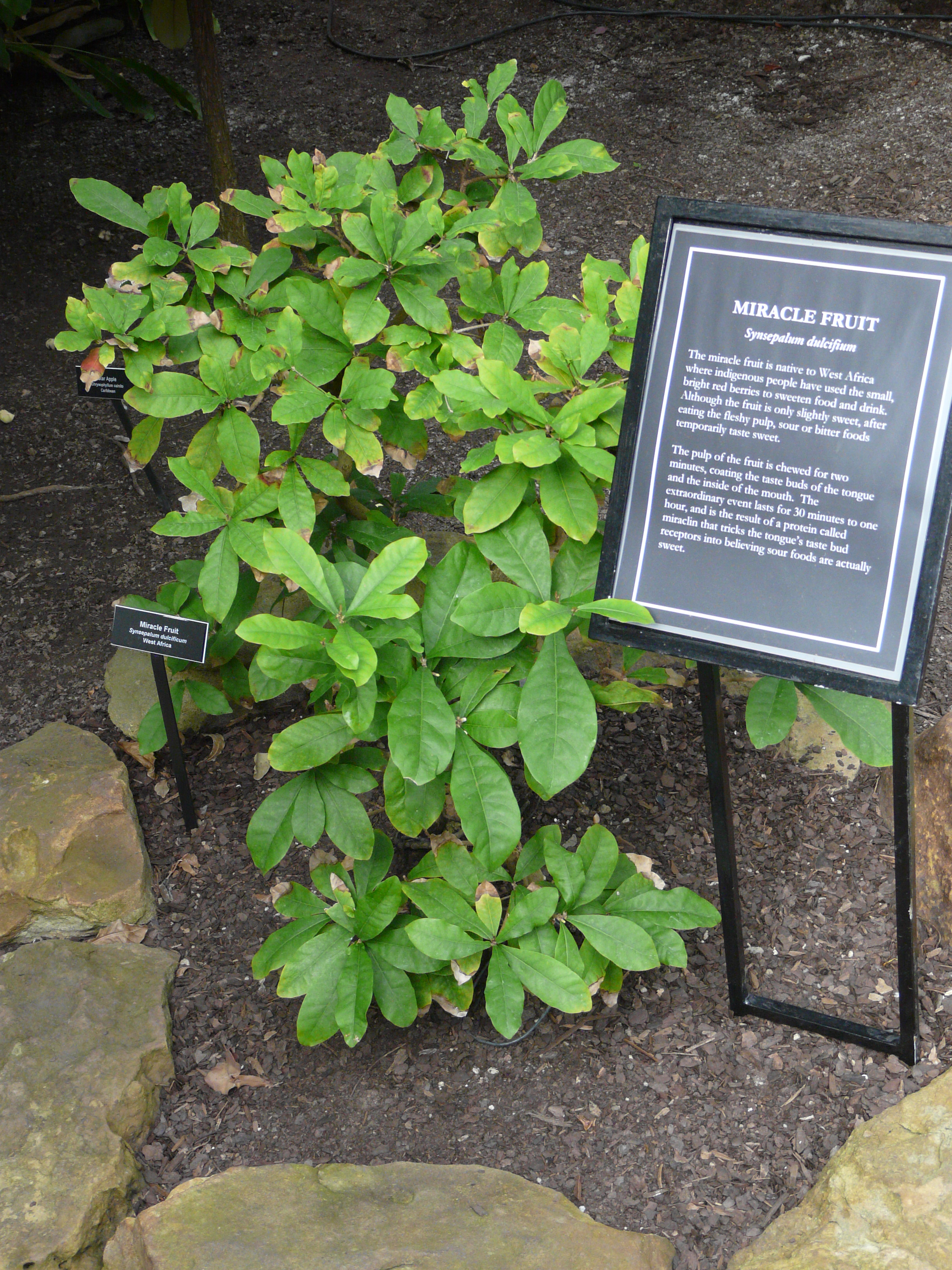 Phipps Conservatory